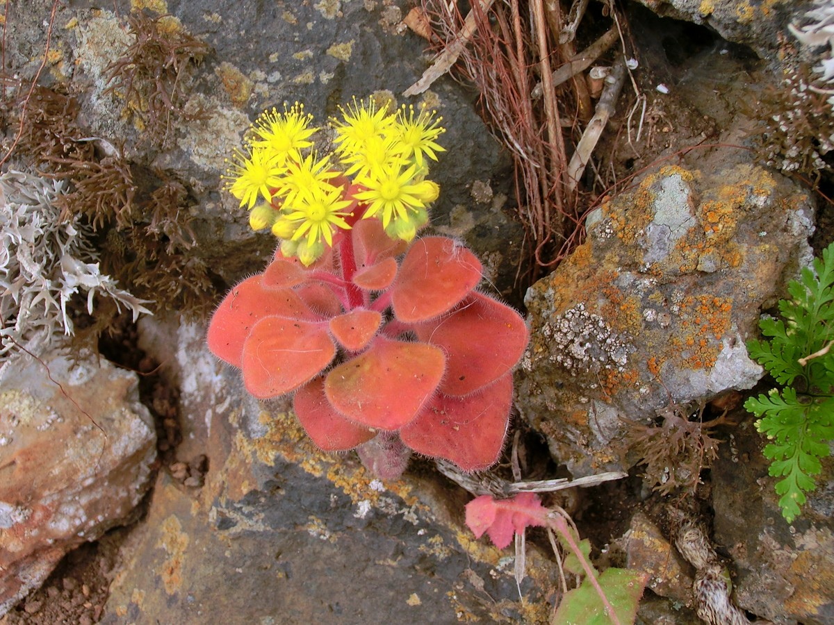 Aichryson laxum, with red leaves. N Tenerife, Orilla de la Vera (SE of San Juan de la Rambla), ca. 400 m.